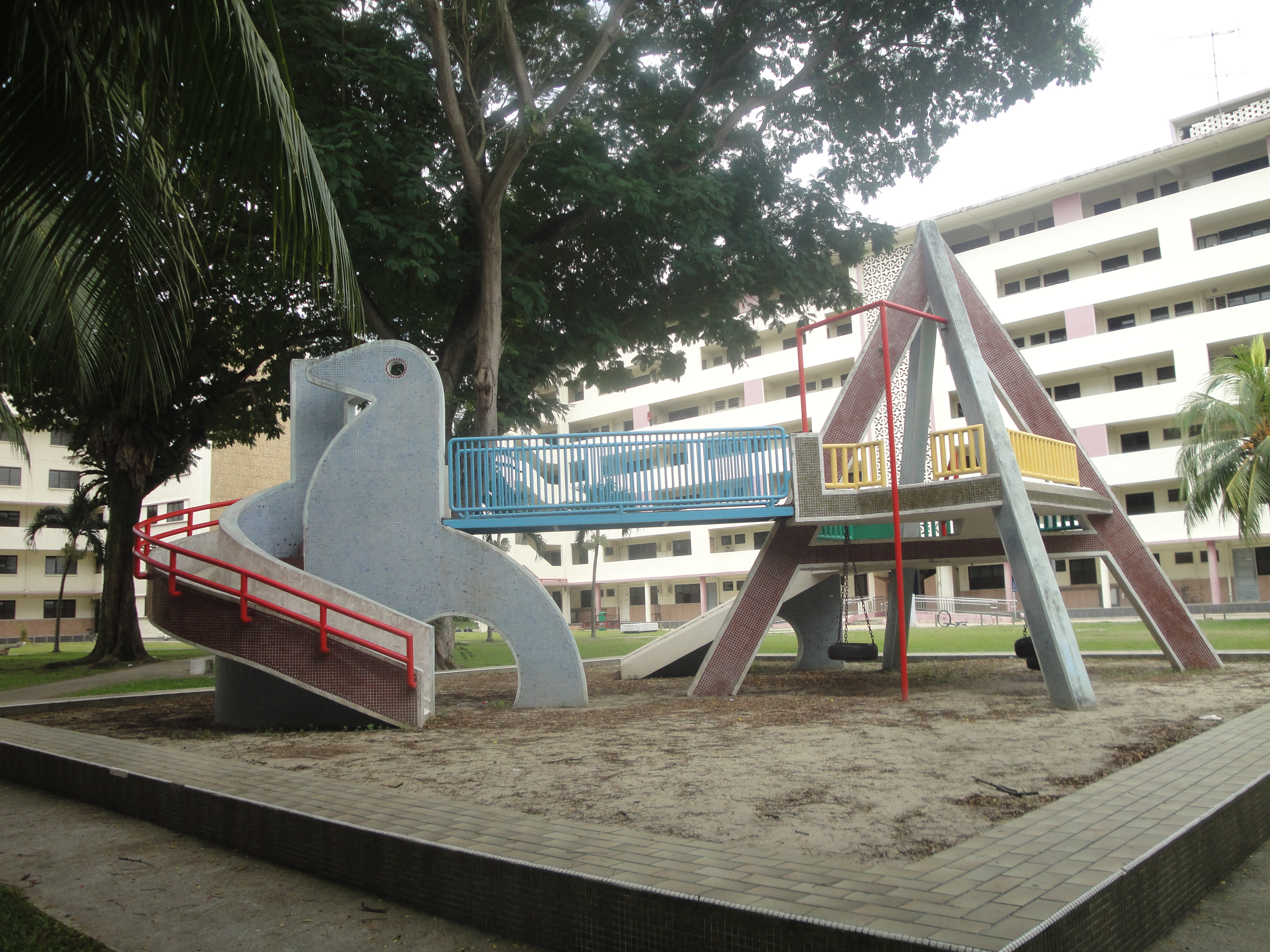 It is one of the oldest playgrounds in Singapore. It was designed by the same man who designed the Dragon playground at Toa Payoh.